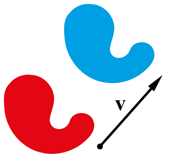 translation